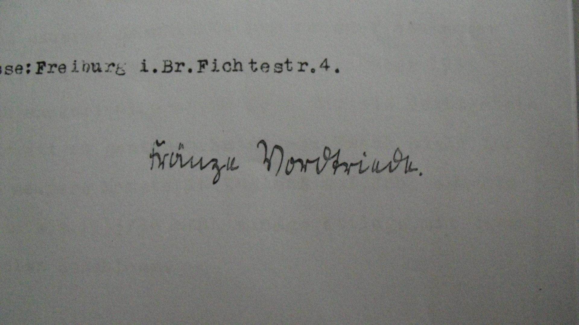 Handwritten signature of the Freiburg emigrant Fränze Vordtriede, dating from 1934.